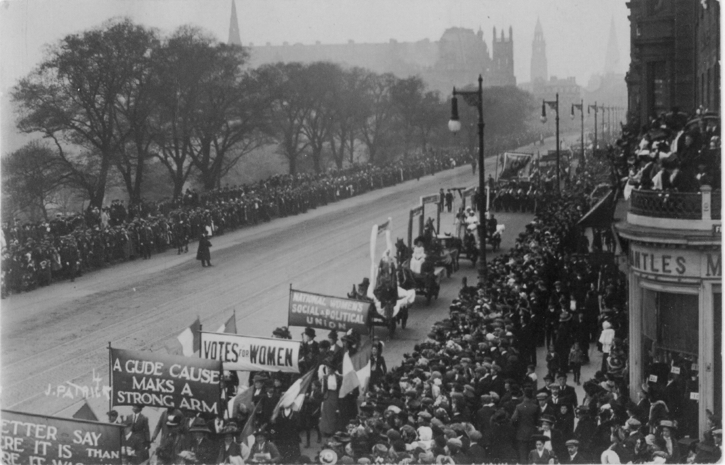 "The Great Procession and Women's Demonstration" organised by the Women's Social and Political Union (WSPU) on 9th October, 1909. Photograph taken by James Patrick, 1863 - 1933, son of John Patrick, 1831 - 1923.